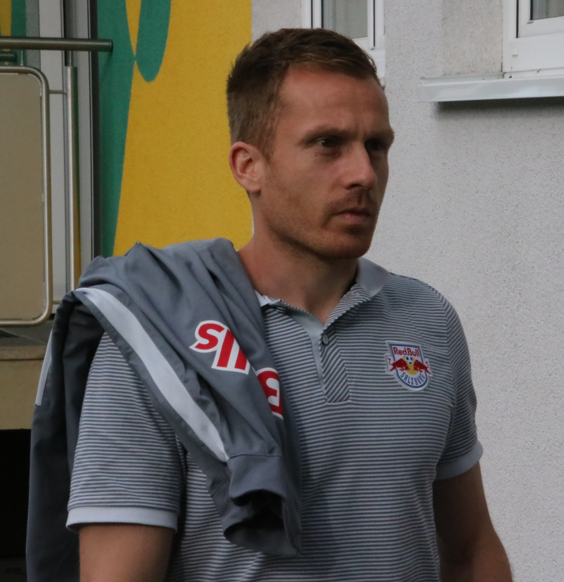 preseason match season 2016/17